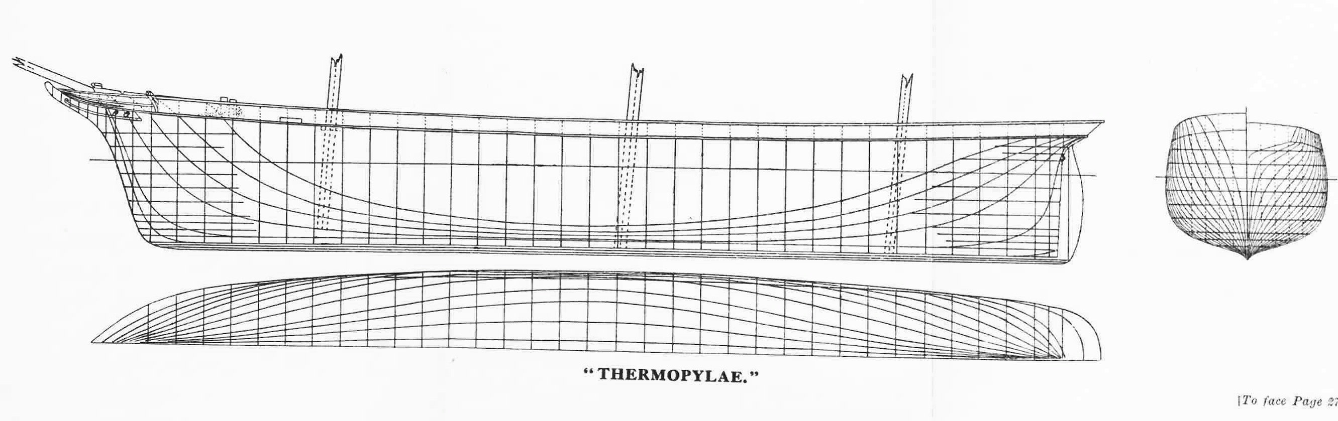 Lines of Thermopylae, 1851 clipper ship